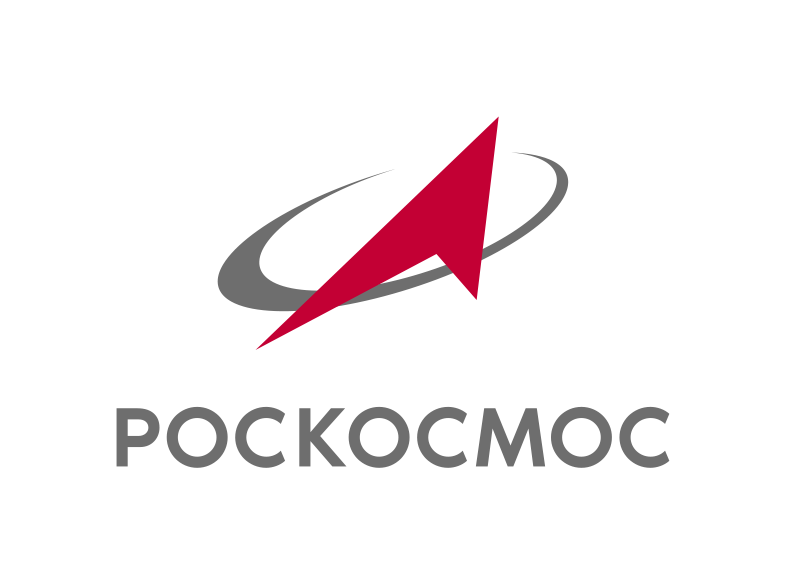 Roscosmos logo